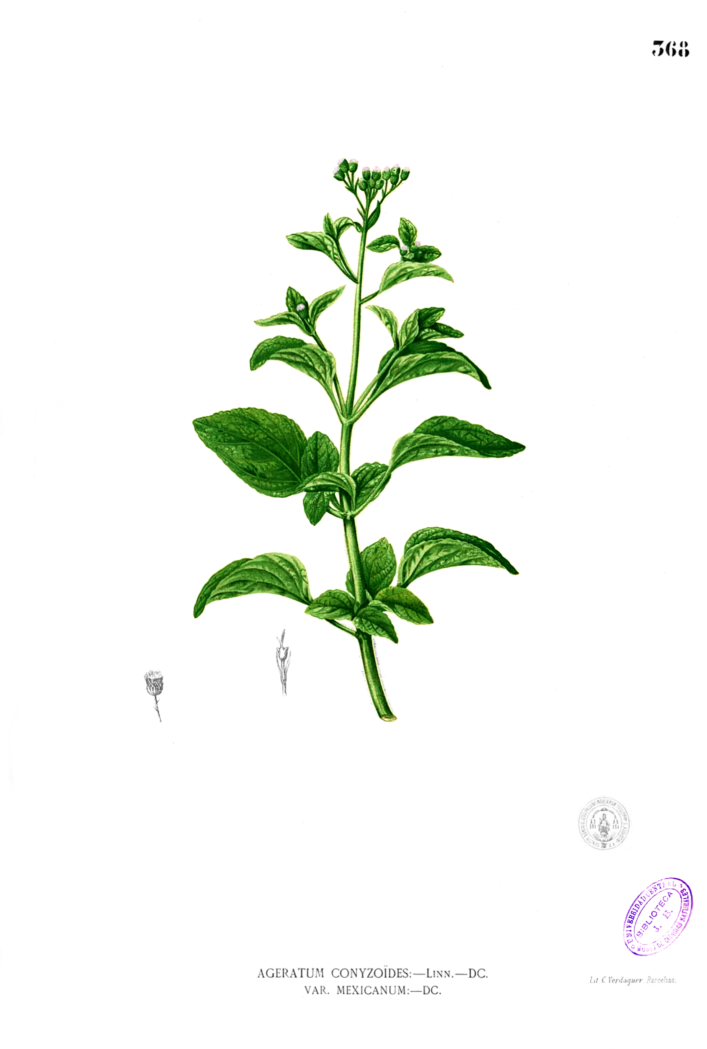 Plate from book